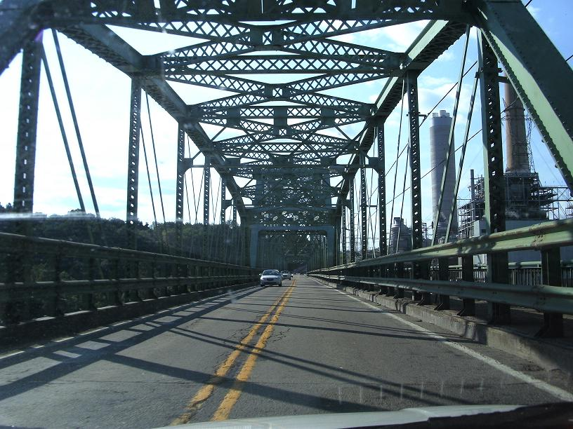 PA 21 on the Masontown Bridge over the Monongahela River traveling west.